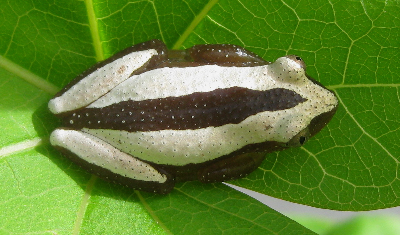 Leaf-folding frog (Afrixalus fornasinii) on a leaf of Jatropha curcas x integerrima.